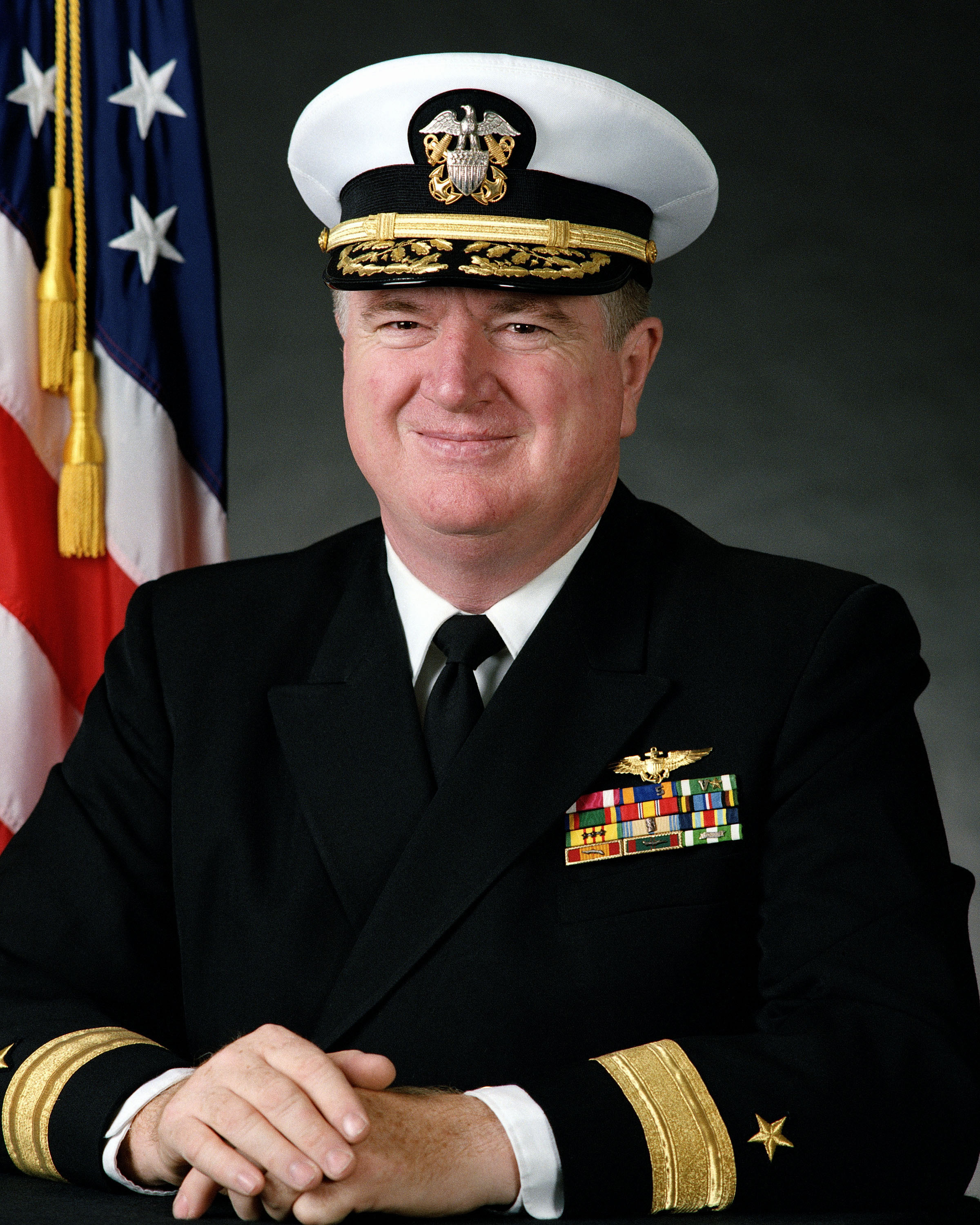 United States Navy Rear Admiral Wilson Flagg.